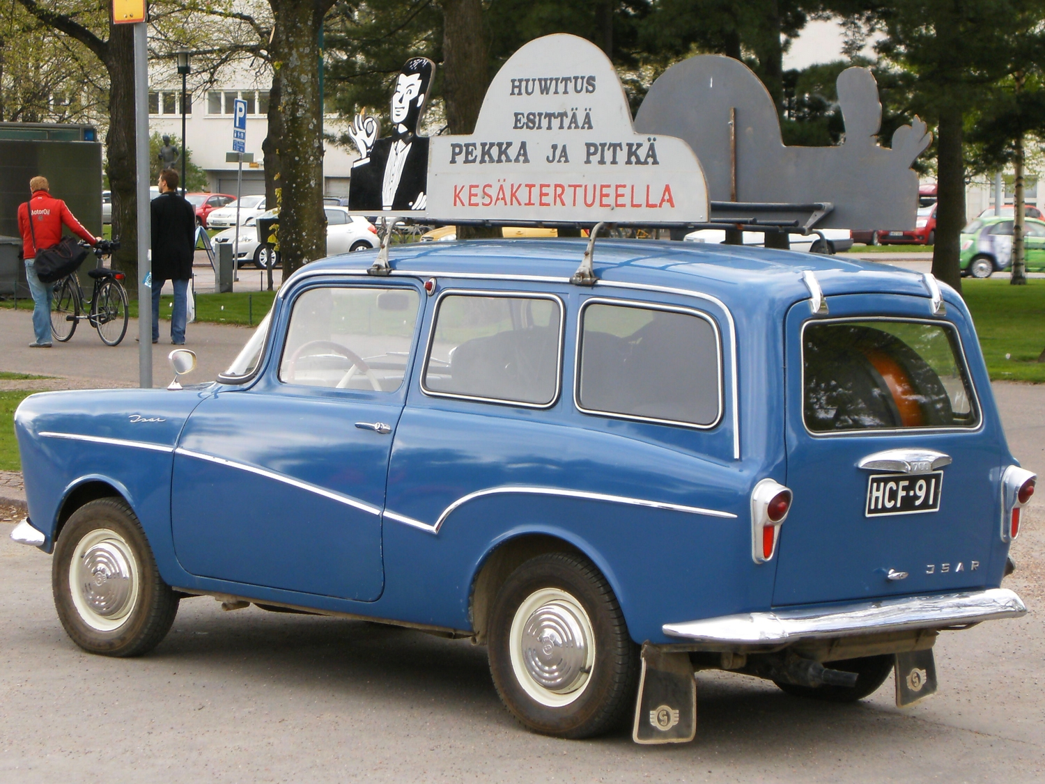 A blue Glas Isar station wagon, location: Helsinki Olympic Stadium